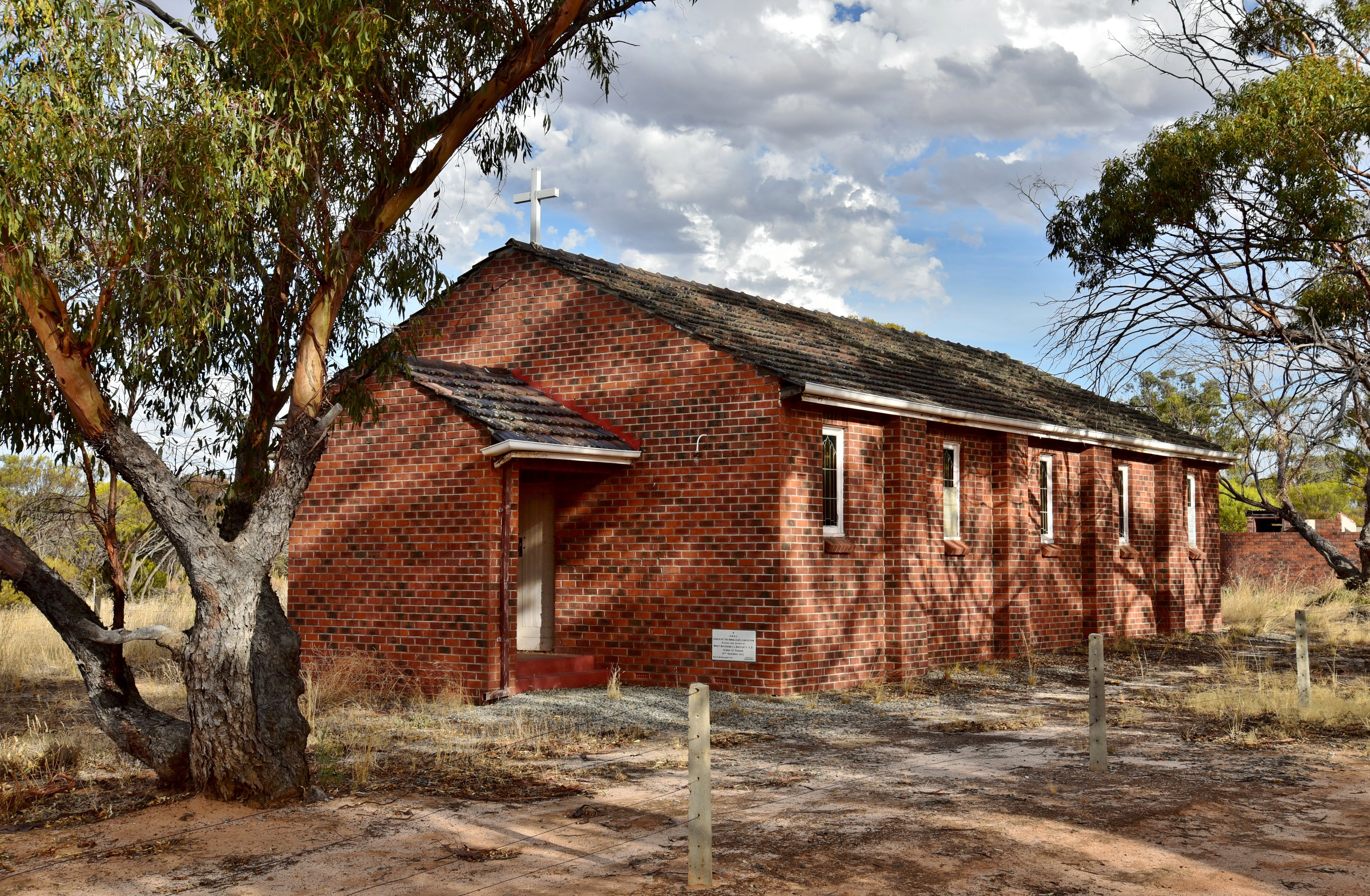 View of the Church of the Immaculate Conception, Kwolyin, Western Australia